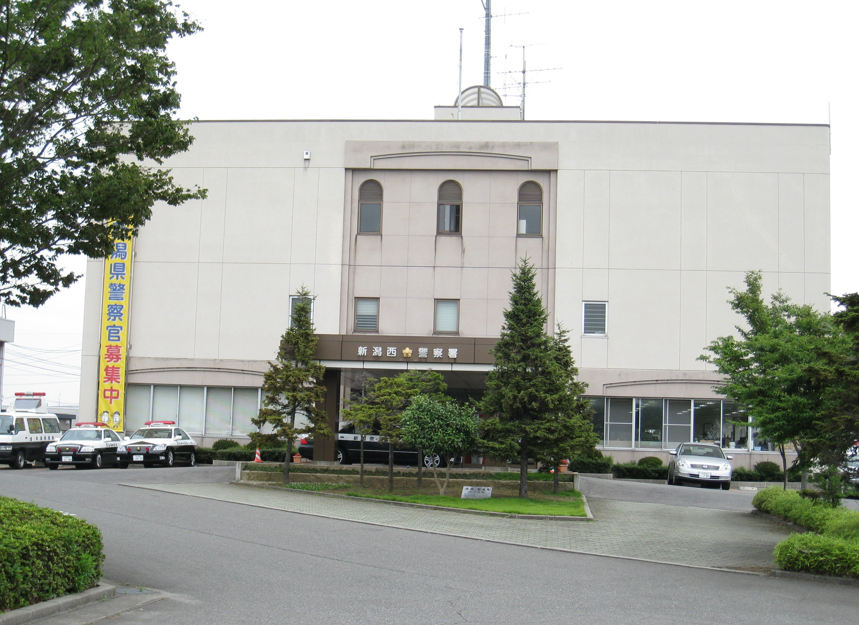 Niigata nishi police Station. Niigata-pref ,Japan